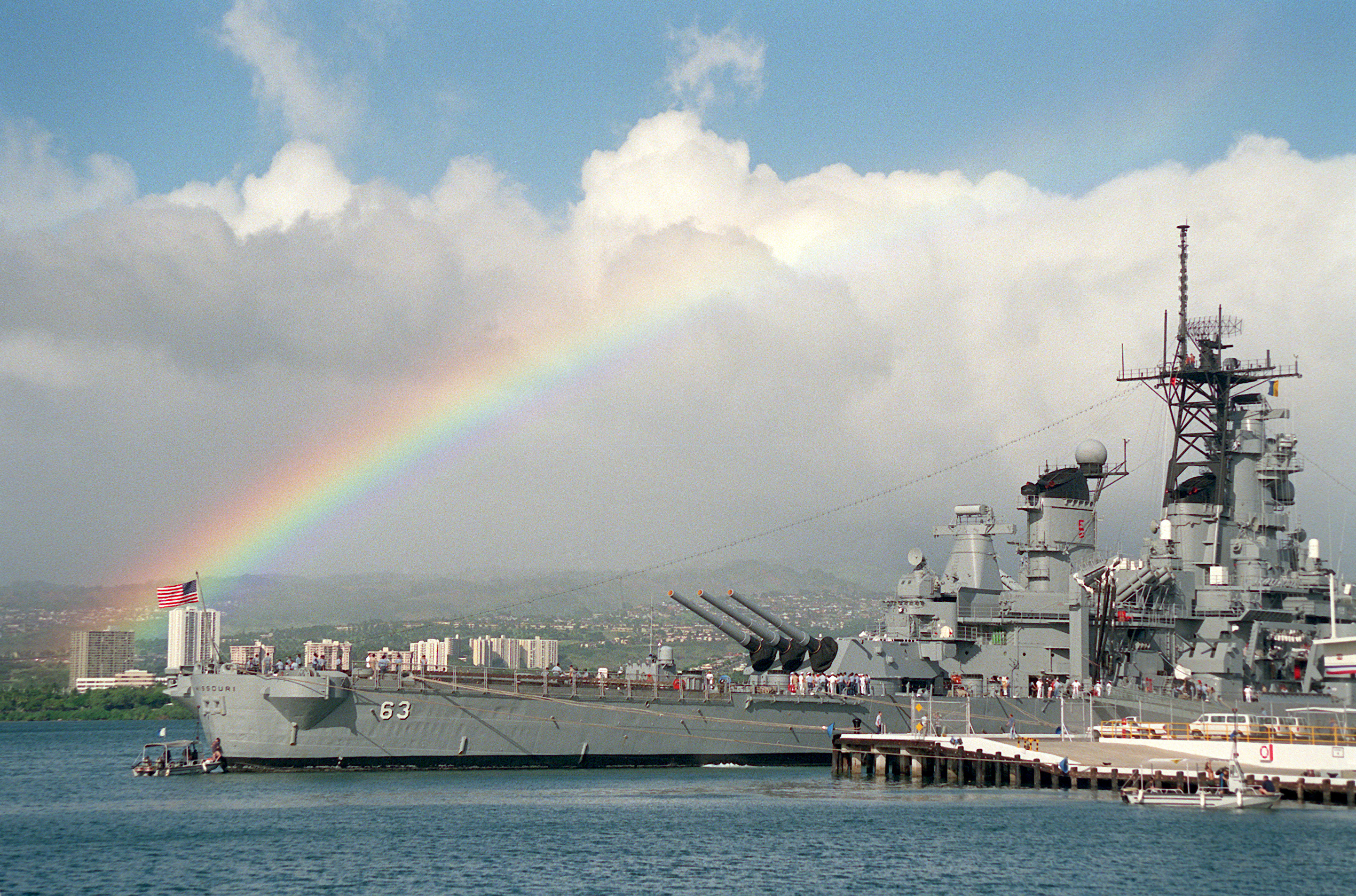 A rainbow highlights the sky in the background as the battleship USS MISSOURI (BB-63) lies tied up at the naval station. The MISSOURI is in Hawaii to take part in the observance of the 50th anniversary of the Japanese attack on Pearl Harbor. Location: NAVAL STATION, PEARL HARBOR, HAWAII (HI) UNITED STATES OF AMERICA (USA)